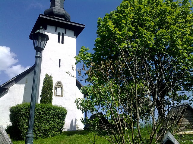 St. Martin church - Martinček